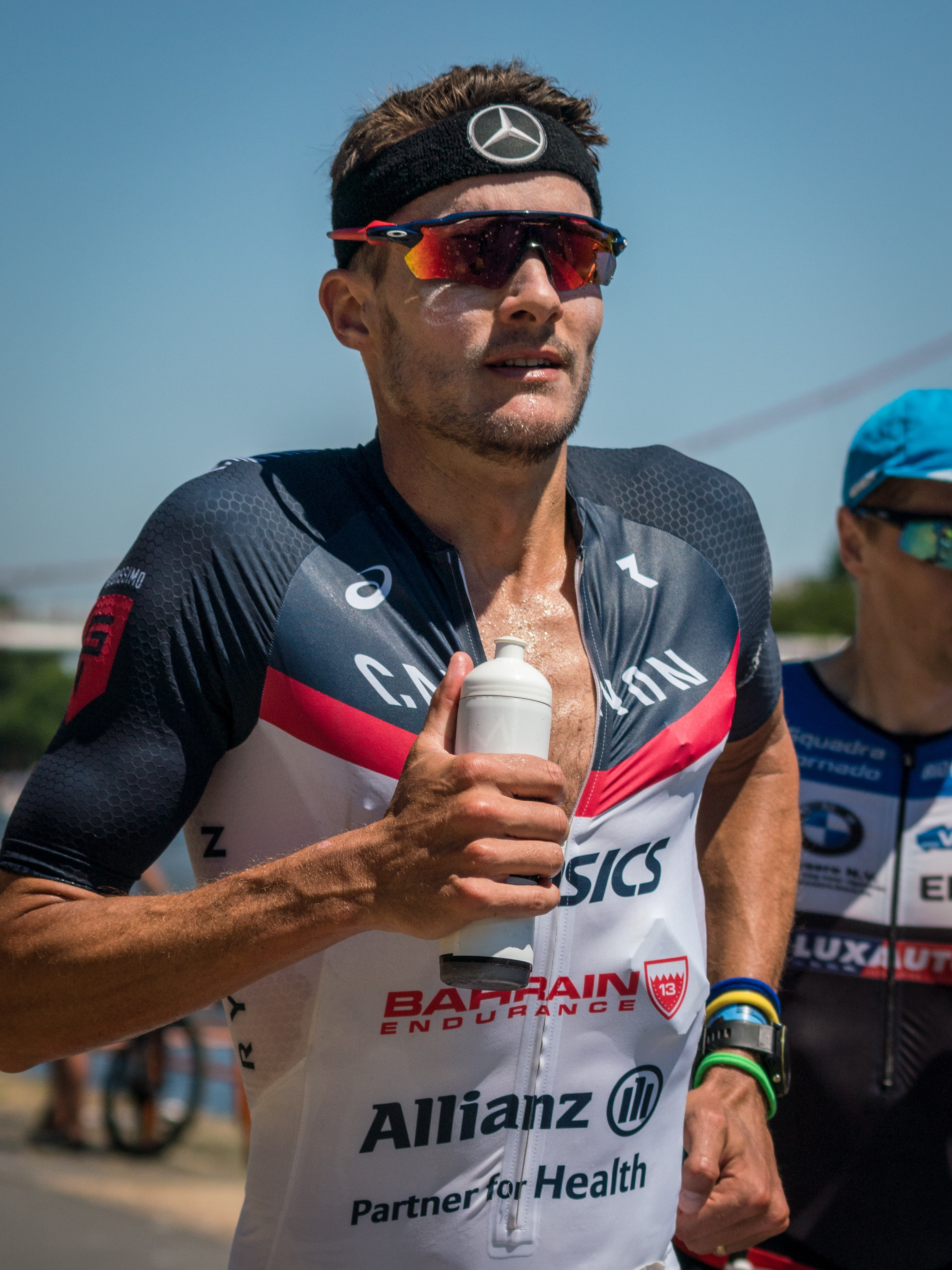 First male Jan Frodeno at the 2018 Ironman European Championship in Frankfurt am Main (Germany).